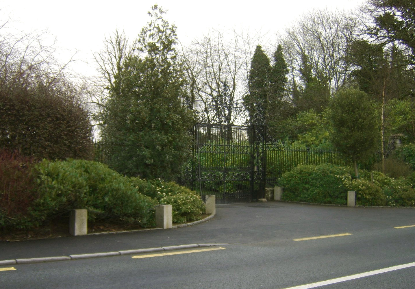 The Grand Gate of Castlemartin Estate, dating from the 18th century (?), and renovated in the late 20th. On the Newbridge Road near the Curragh, by Kilcullen, County Kildare.